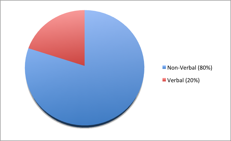 This pie chart shows that 80% of communication is non-verbal and 20% of communication is verbal.